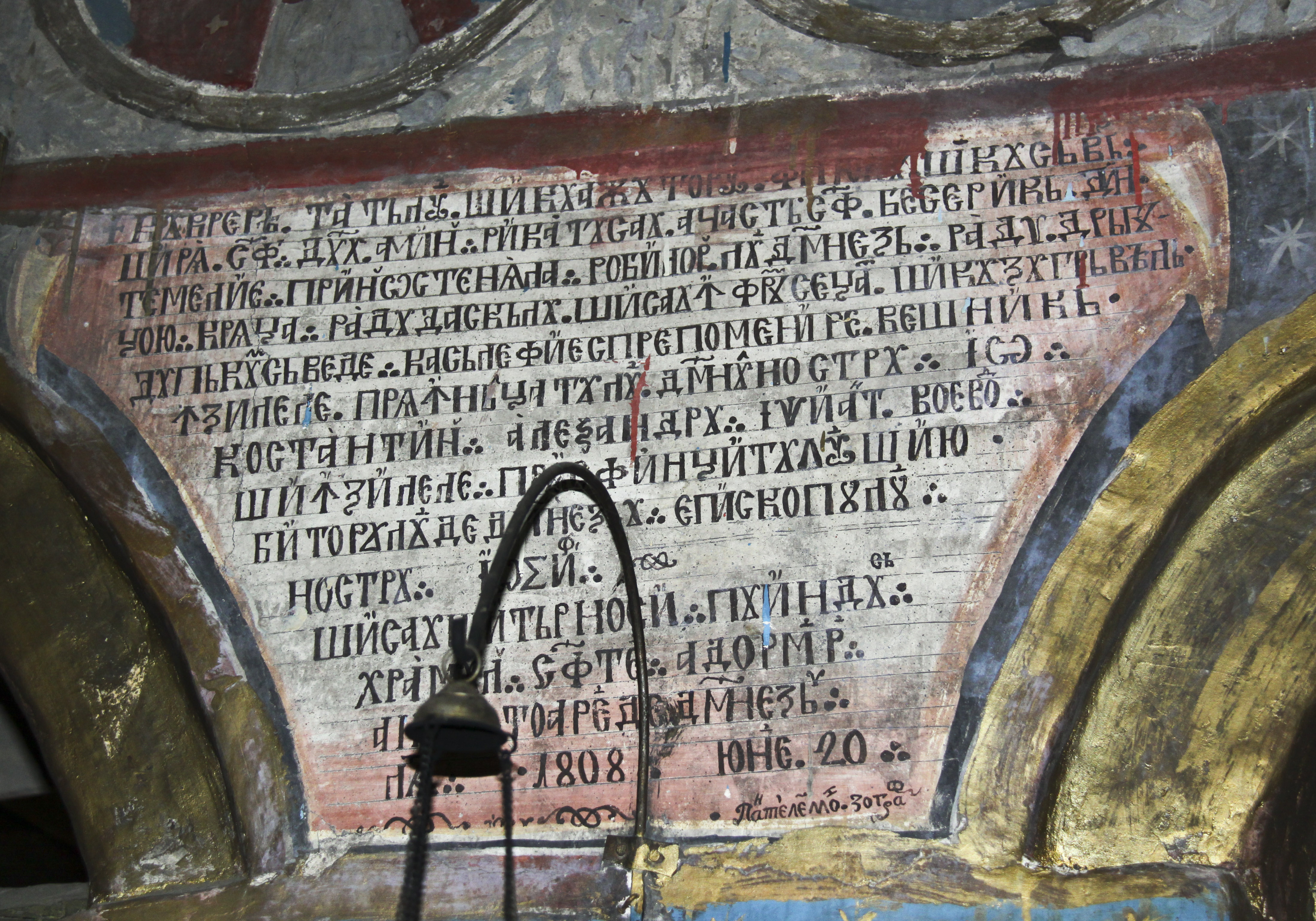 Glâmbocu, Argeş county, Romania: the wooden church.